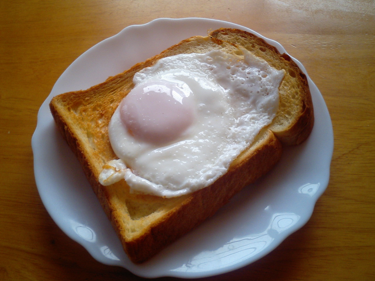 Laputa pan (Laputa bread) from Castle in the Sky